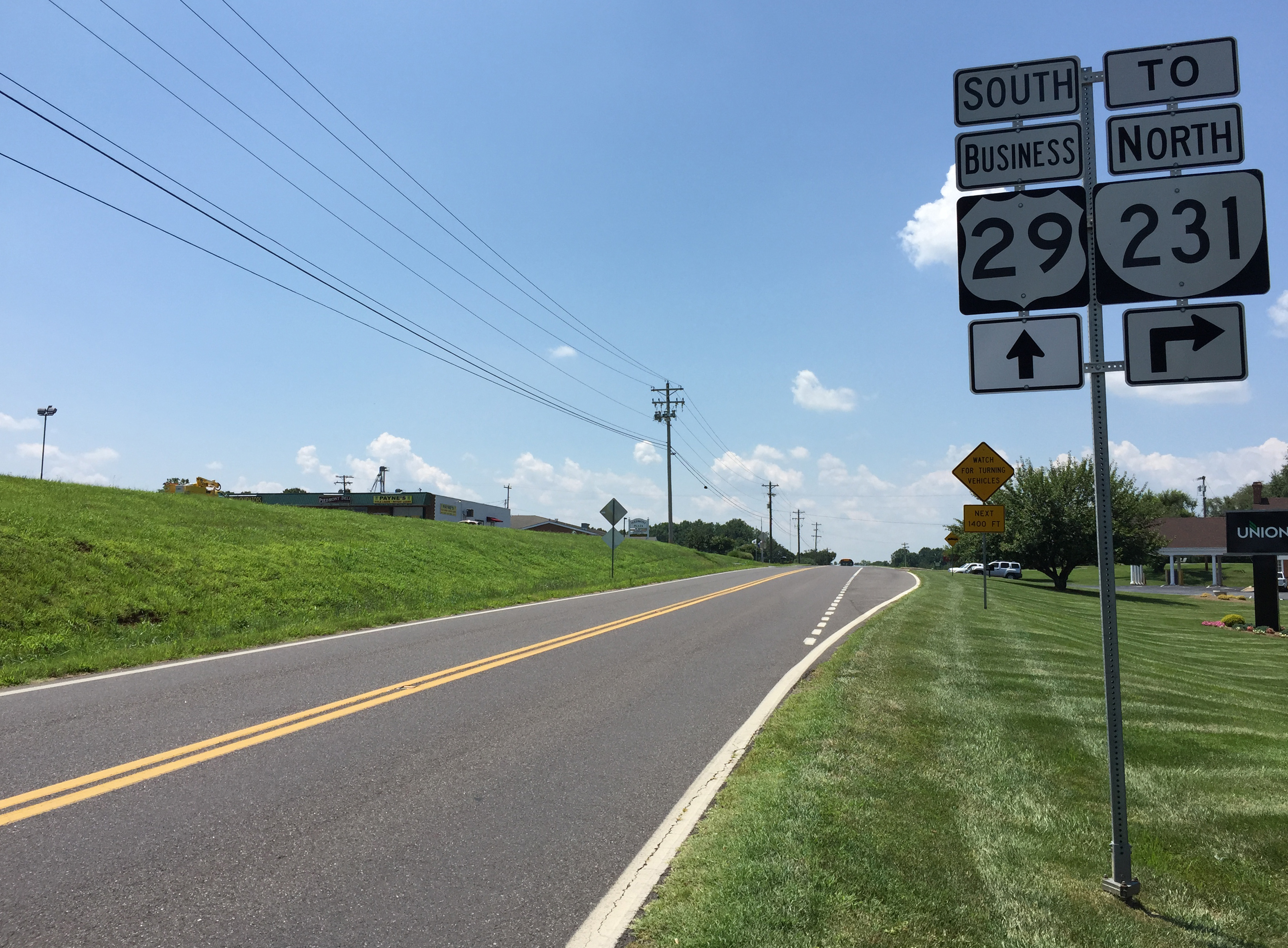 View south along U.S. Route 29 Business (Main Street) at Cedar Hill Road just north of Madison in Madison County, Virginia